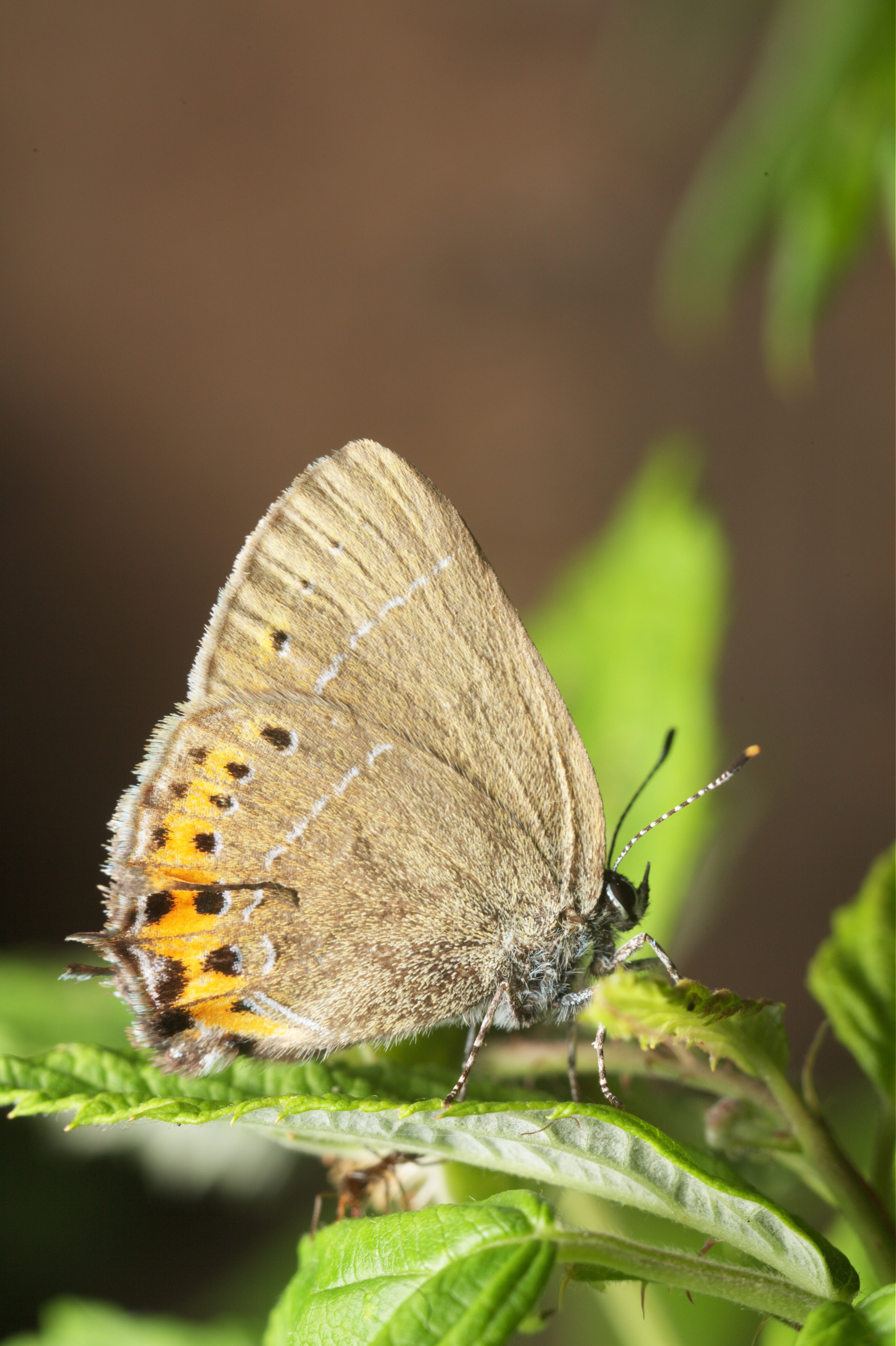 butterfly on green leaf, taken in Sredna Gora, Bulgaria